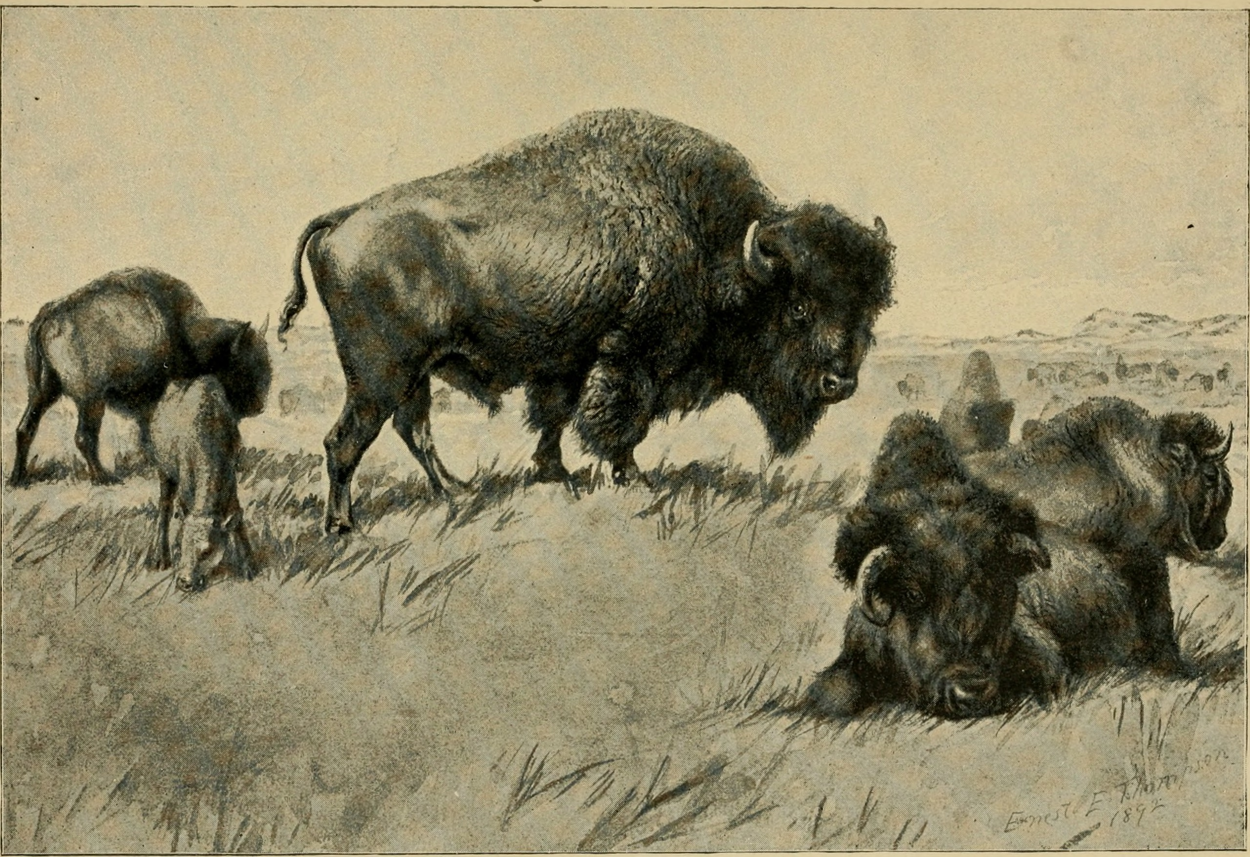 Title: American big-game hunting; Year: 1901 (1900s) Authors: Roosevelt, Theodore, 1858-1919; Grinnell, George Bird, 1849-1938; Boone and Crockett Club Subjects: Hunting Publisher: New York, Forest and stream publishing co. Text Appearing Before Image: ' Text Appearing After Image: '